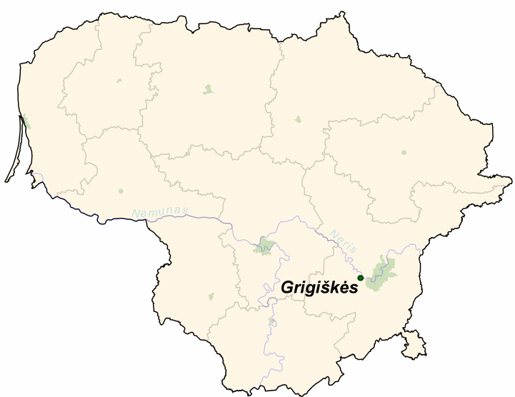 Grigiškės on the map of Lithuania